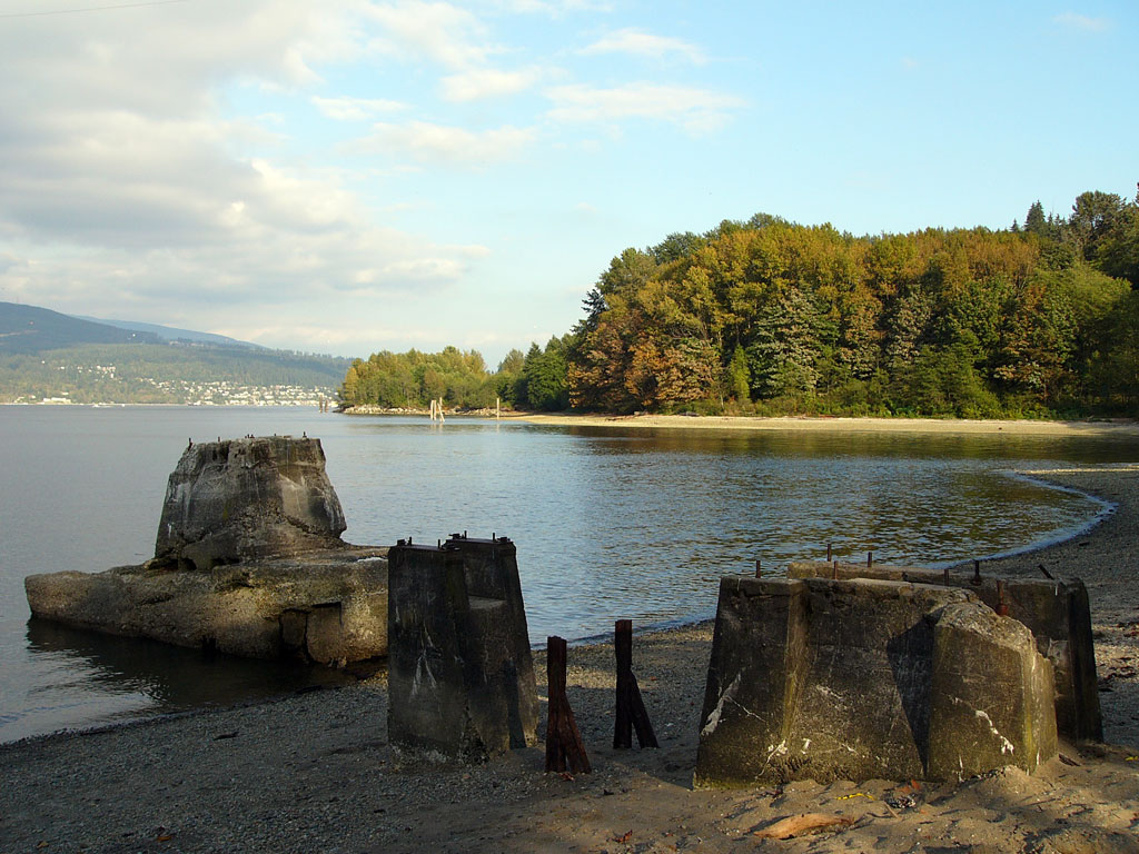 Barnet_Marine_Park